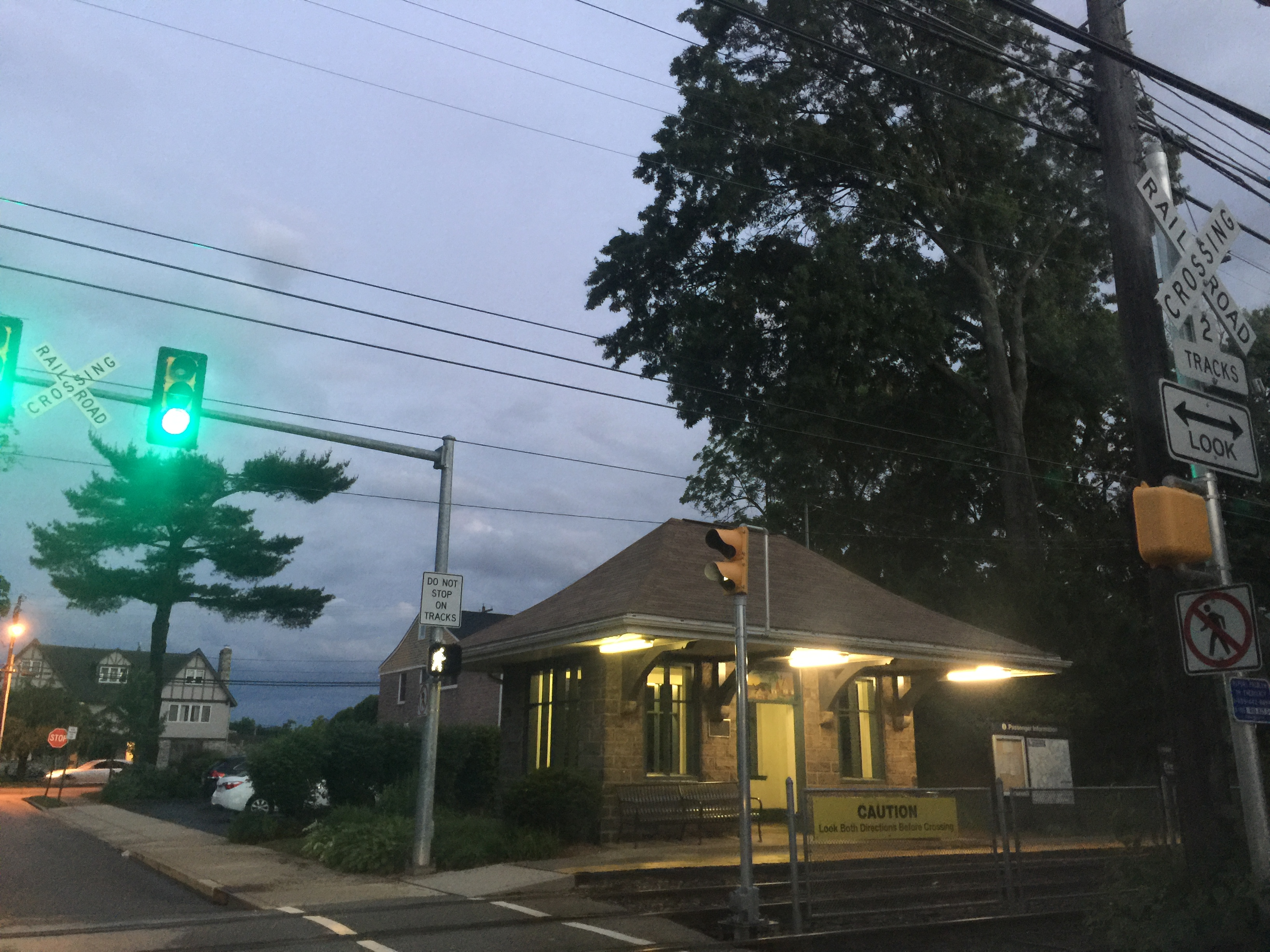 Drexel park station